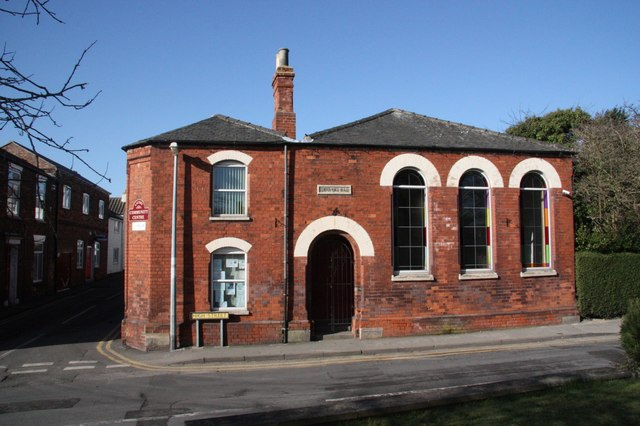 Temperance Hall. Former Temperance Hall in Laceby, now a Community Centre